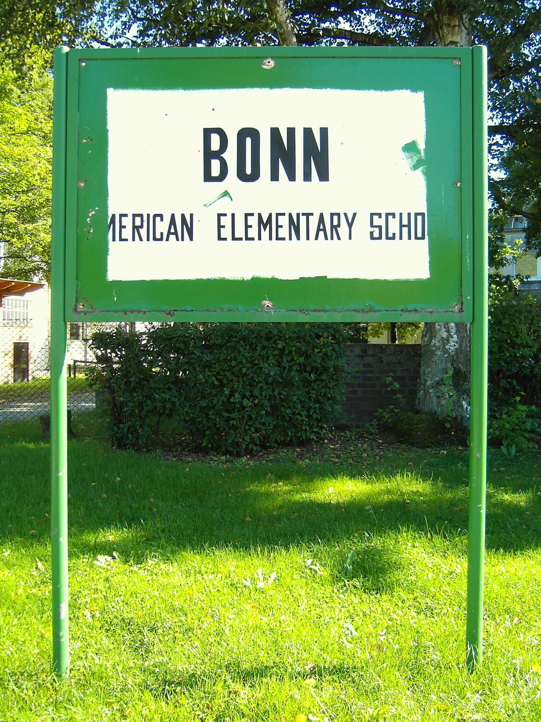 Sign of the former Bonn American Elementary School at the HICOG-Siedlung Plittersdorf in Bonn.